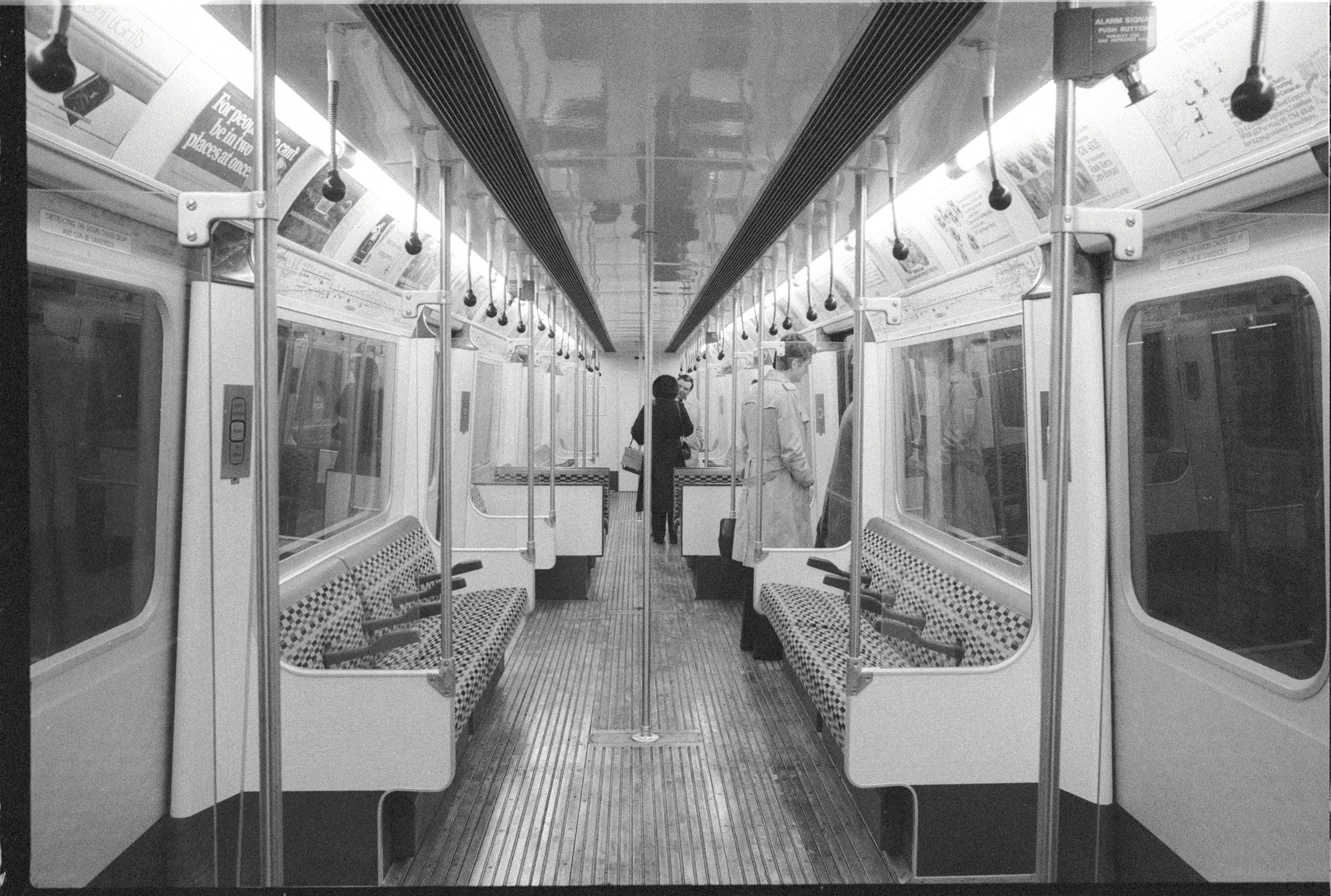 D78 stock as built. These were taken on the press run of the prototype.